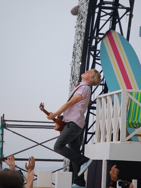 Tom Fletcher of McFly at T4 on the Beach 2006 in Weston Super Mare.